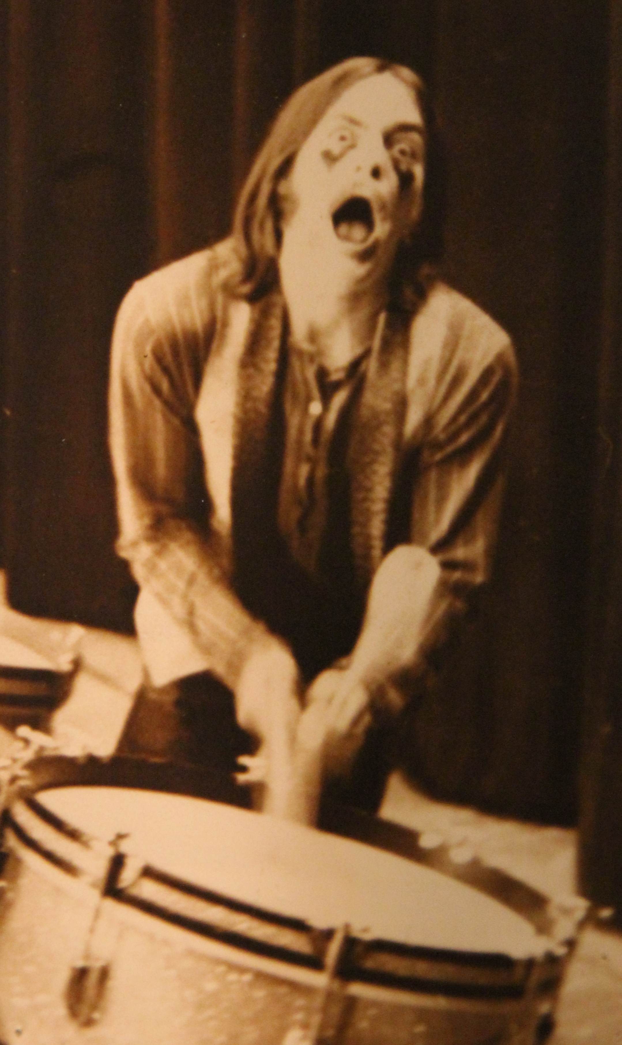 Mark Wilson performs in the Dada band "ZaSu Pitts and the Enema Dog review" 1968